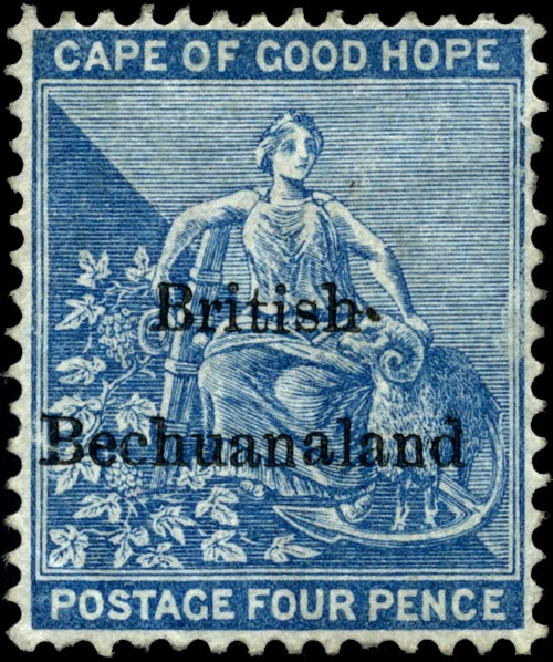 Bechuanaland 4-pence overprint stamp of 1886